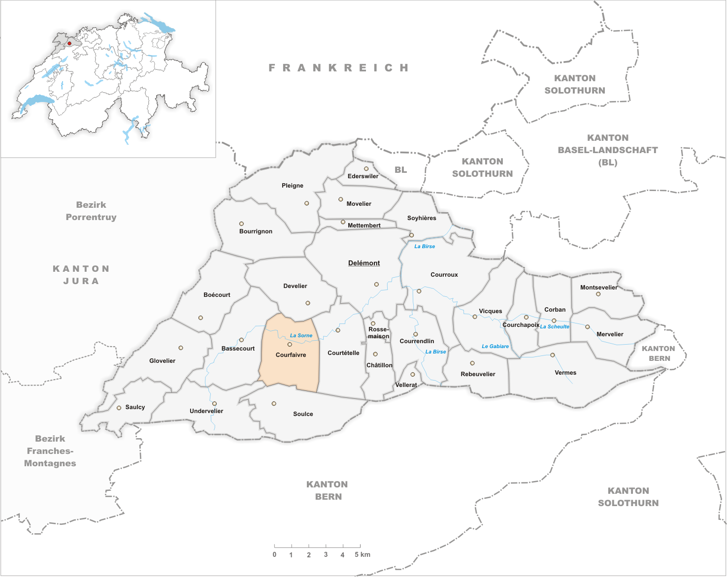 Municipality Courfaivre